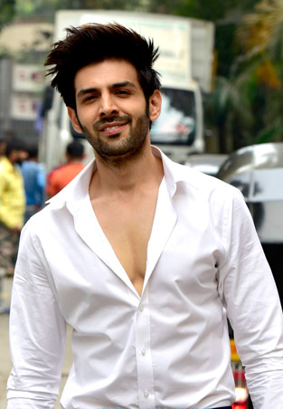 Kartik Aaryan Kartik Aaryan snapped on the sets of India’s Next Superstars